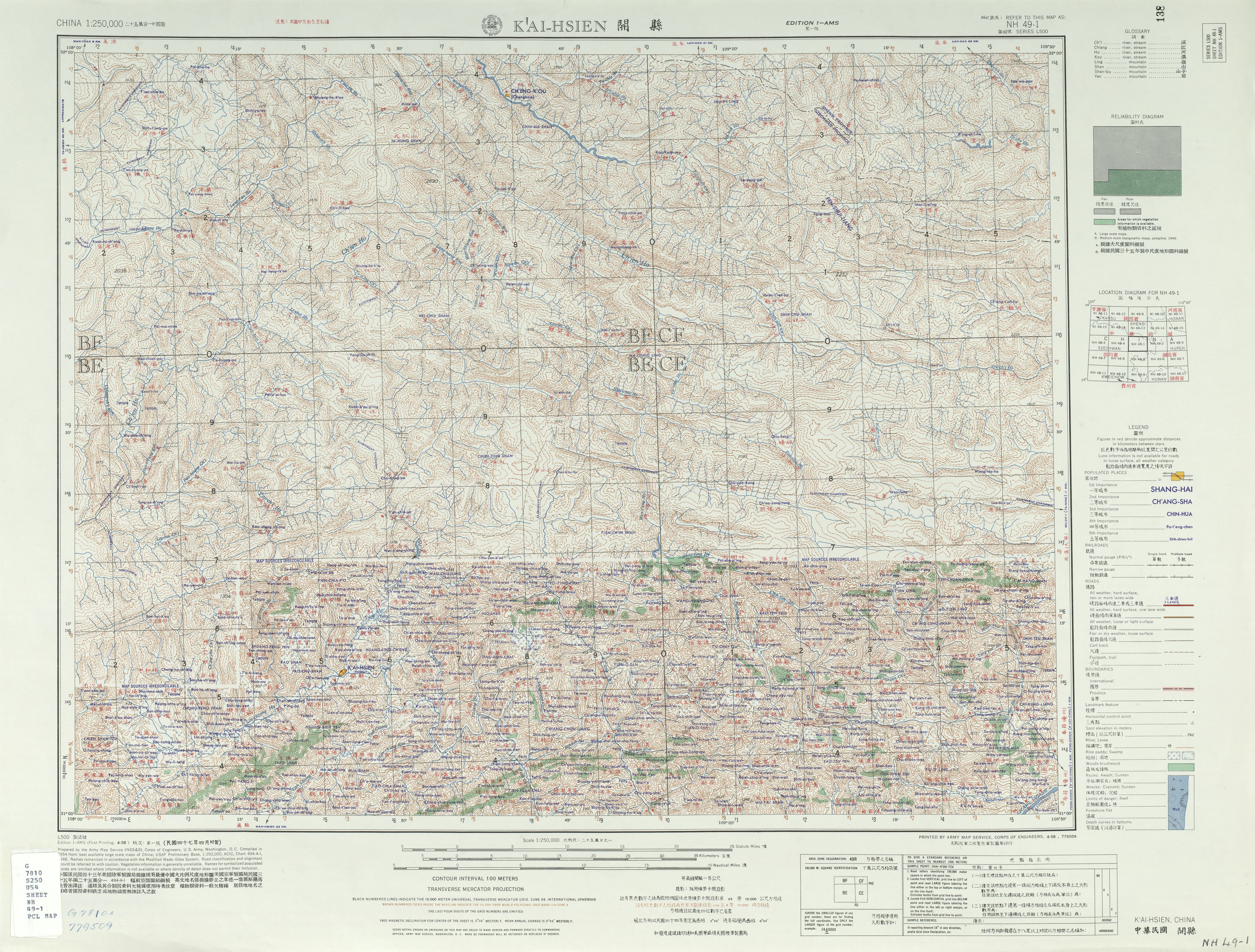 China AMS Topographic Maps